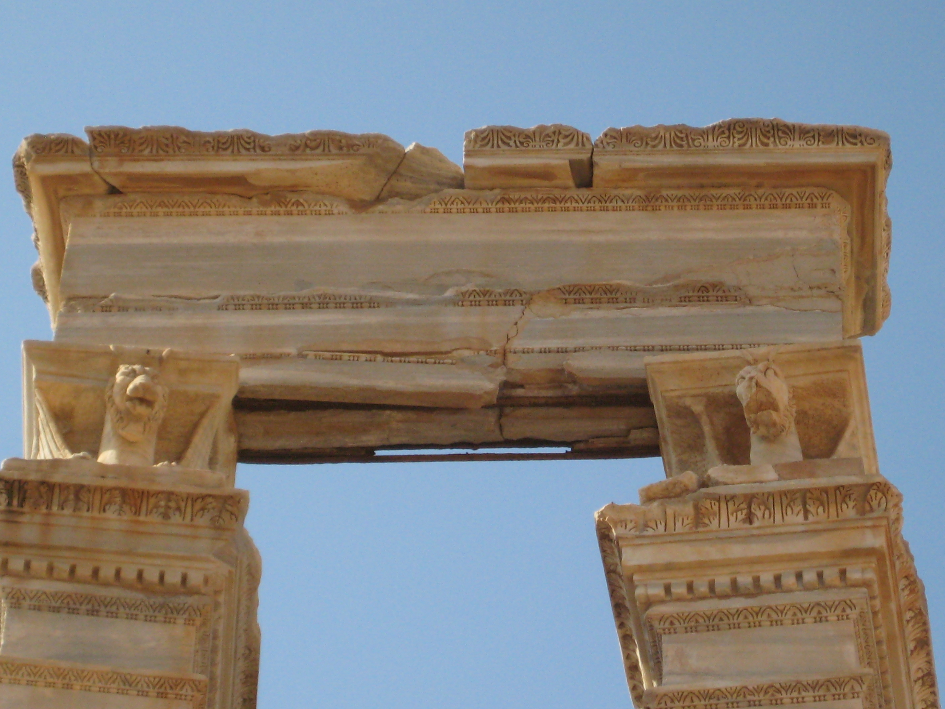 Element of Basilica of Septimus Severus, Leptis Magna 2nd century A.D. (Libya).